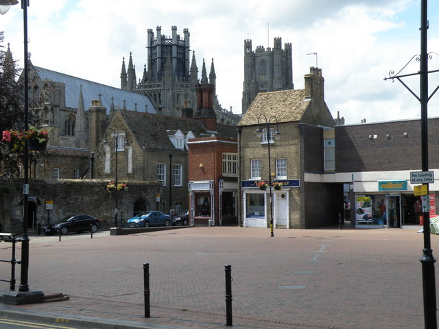 Ely market square